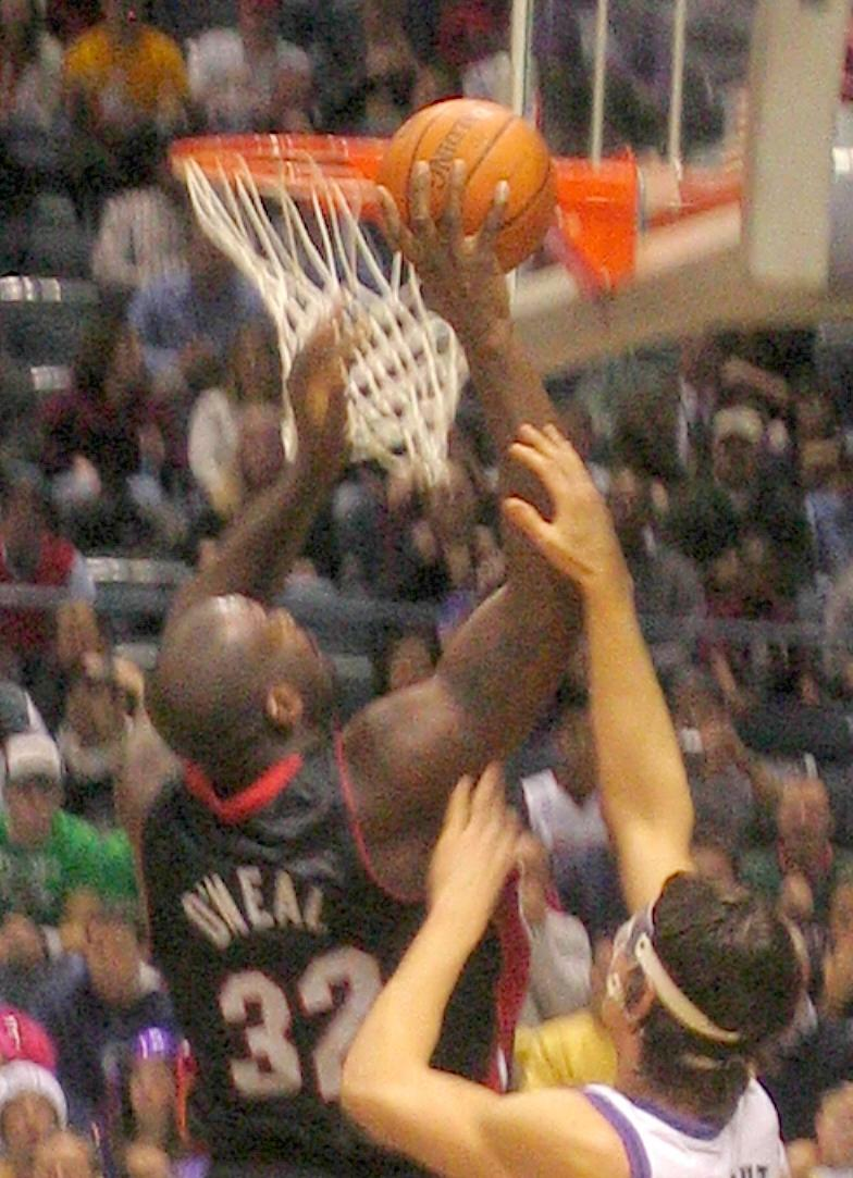 Shaquille O'Neal of the Miami Heat.